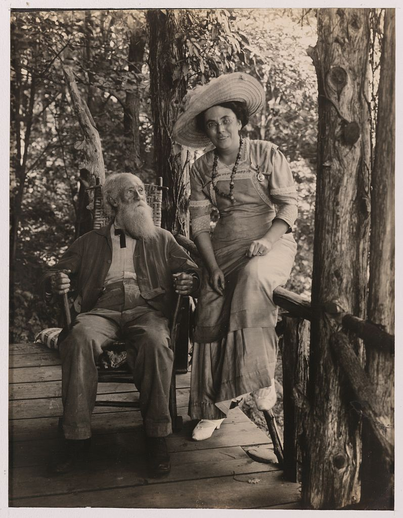 Jessie T. Beals with John Burroughs. Photograph shows Beals and Burroughs sitting on porch at Burroughs' summer cabin, Slabsides, in West Park, New York.